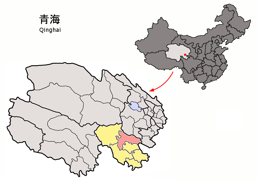 Location of Maqên County (pink) and Golog Prefecture (yellow) within Qinghai province of China Map drawn in september 2007 using various sources, mainly : Qinghai province administrative regions GIS data: 1:1M, County level, 1990 Qinghai Counties map from "Plateau Perspectives" (the limits of some county-level subdivisions may not be accurate)